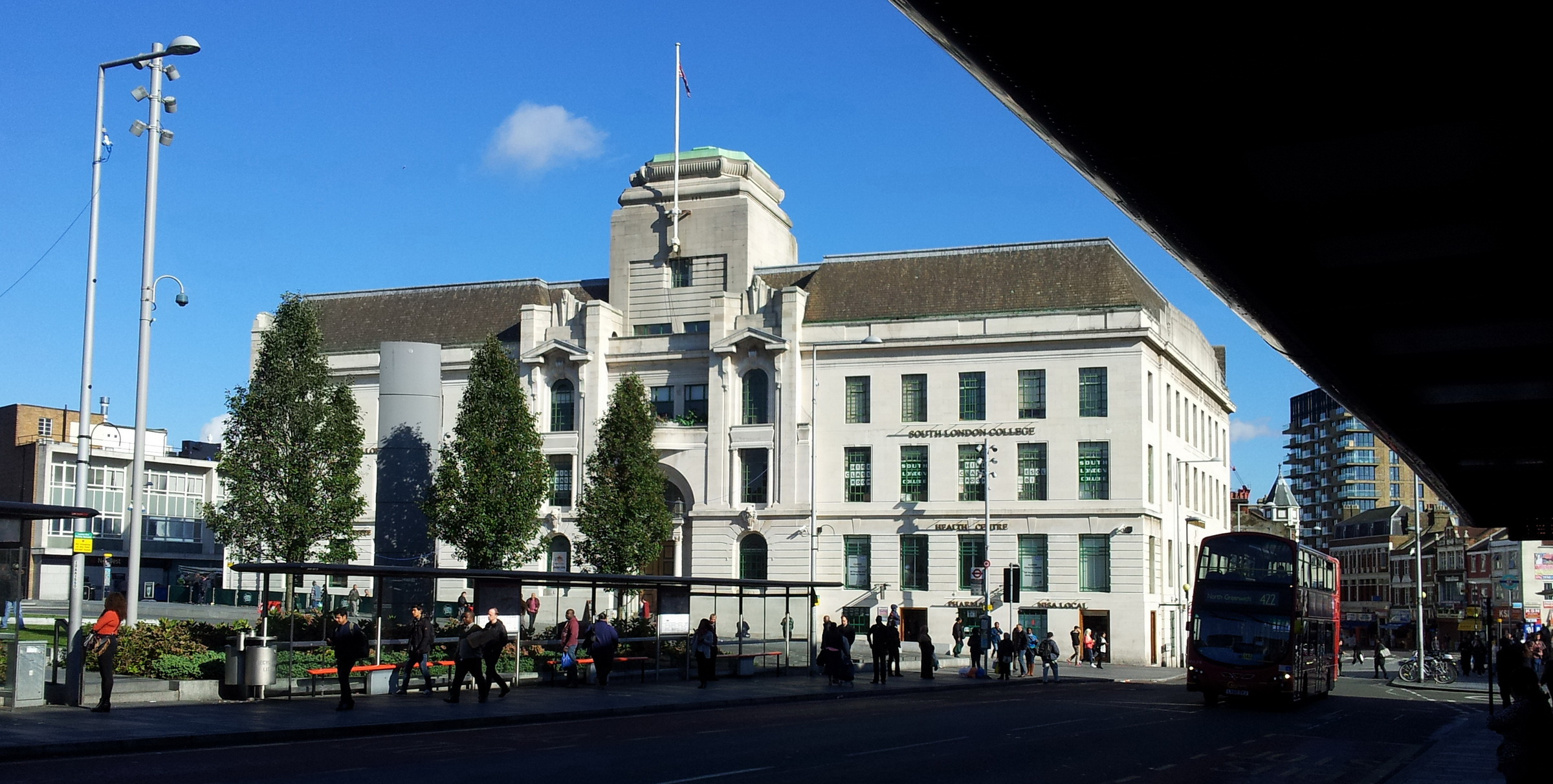 View from Woolwich New Road of General Gordon Square in the centre of Woolwich, South East London. In the background the Equity Building.